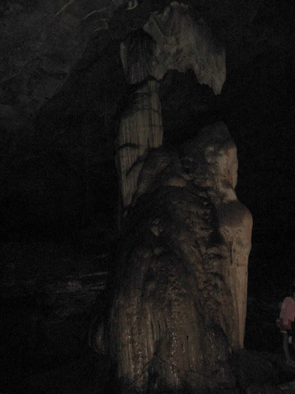 Picture taken by contributor (Claidheamhmor) at the Sudwala Caves on 2006-02-11, with a Canon Powershot A400 digital camera. It shows one of the cave formations in the Sudwala Caves.